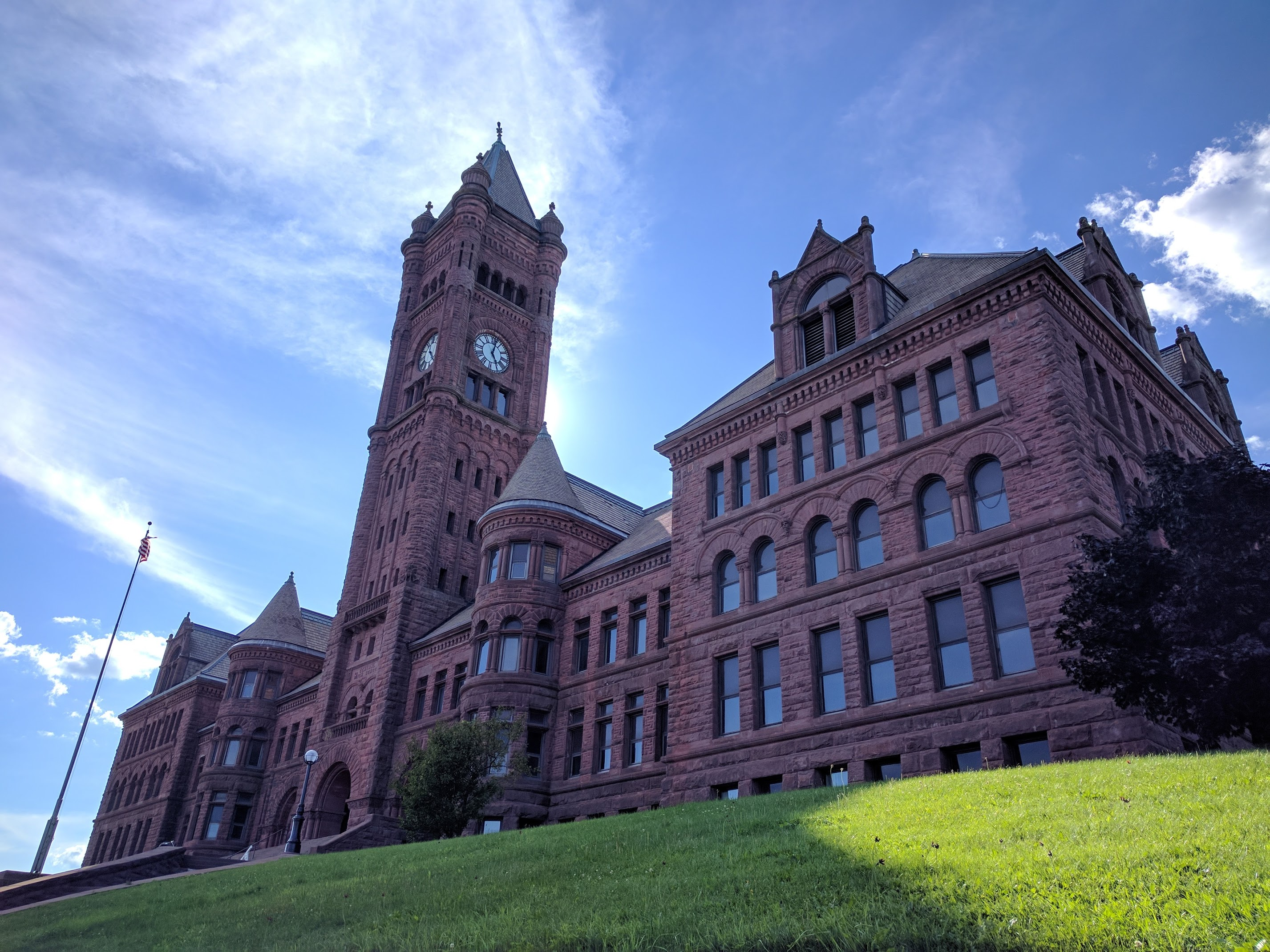 Duluth Central High School (1892)